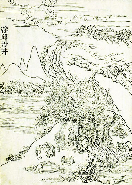 Woodcarving of "floating Qiu Danjing", one of the Eight Scenes of Yangcheng during the Qianlong era of the Qing Dynasty.